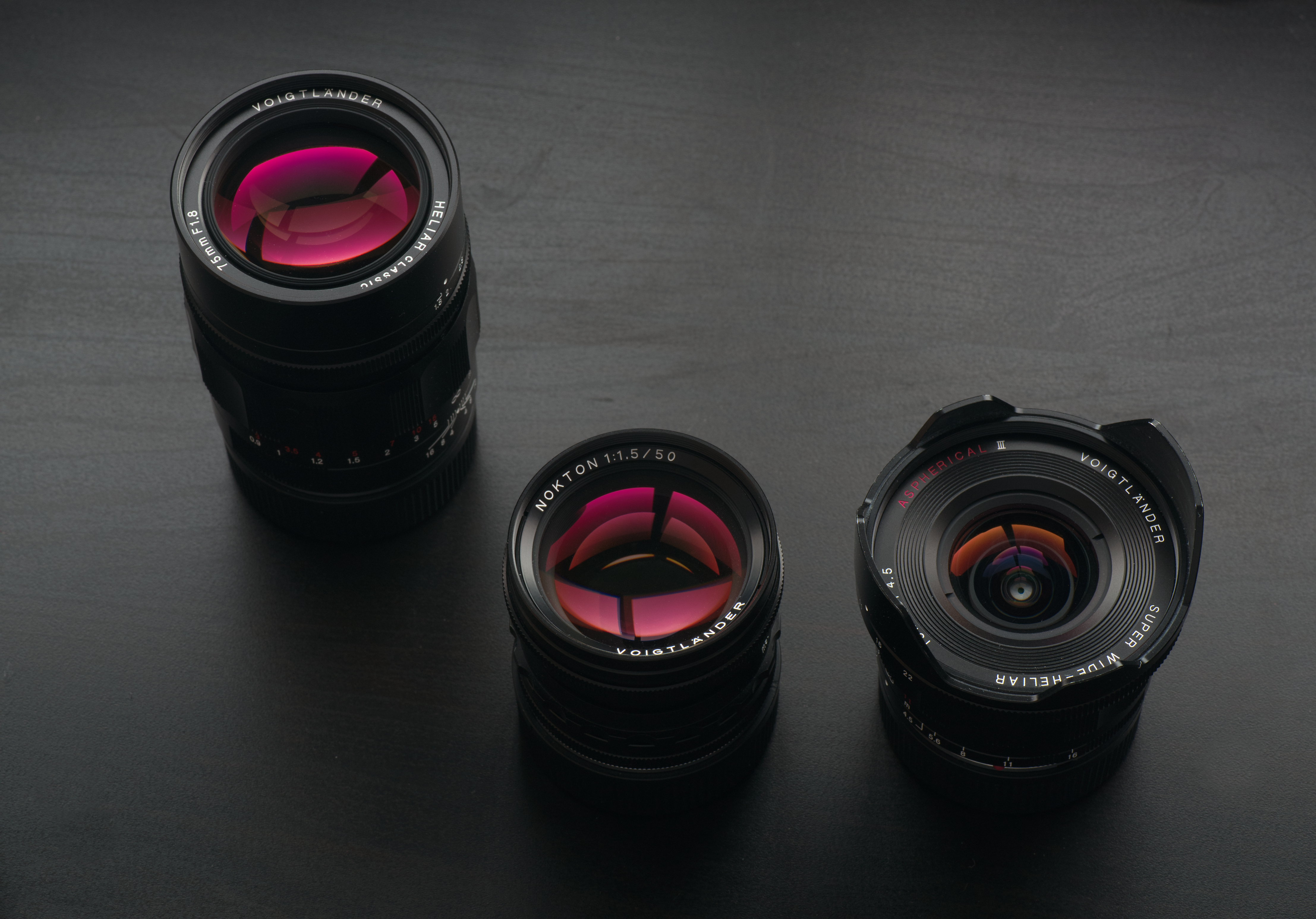 Three Cosina Voigtländer lenses. From left to right: The VM 75mm f/1.8 Heliar Classic, the VM 50mm f/1.5 Nokton Asph., and the VM 15mm f/4.5 Super Wide Heliar Asph III.